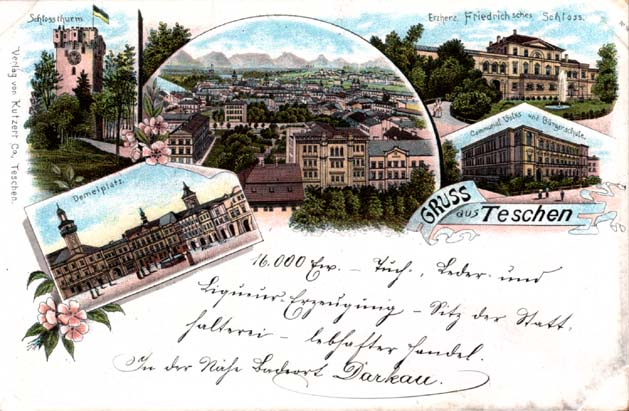 Postcard from 1900 from Teschen (now Cieszyn); the Duchy of Teschen belonged until 1918 to the Austria-Hungary. The black and yellow Flag of the Habsburg Monarchy is depicted on the Piast Tower to the left